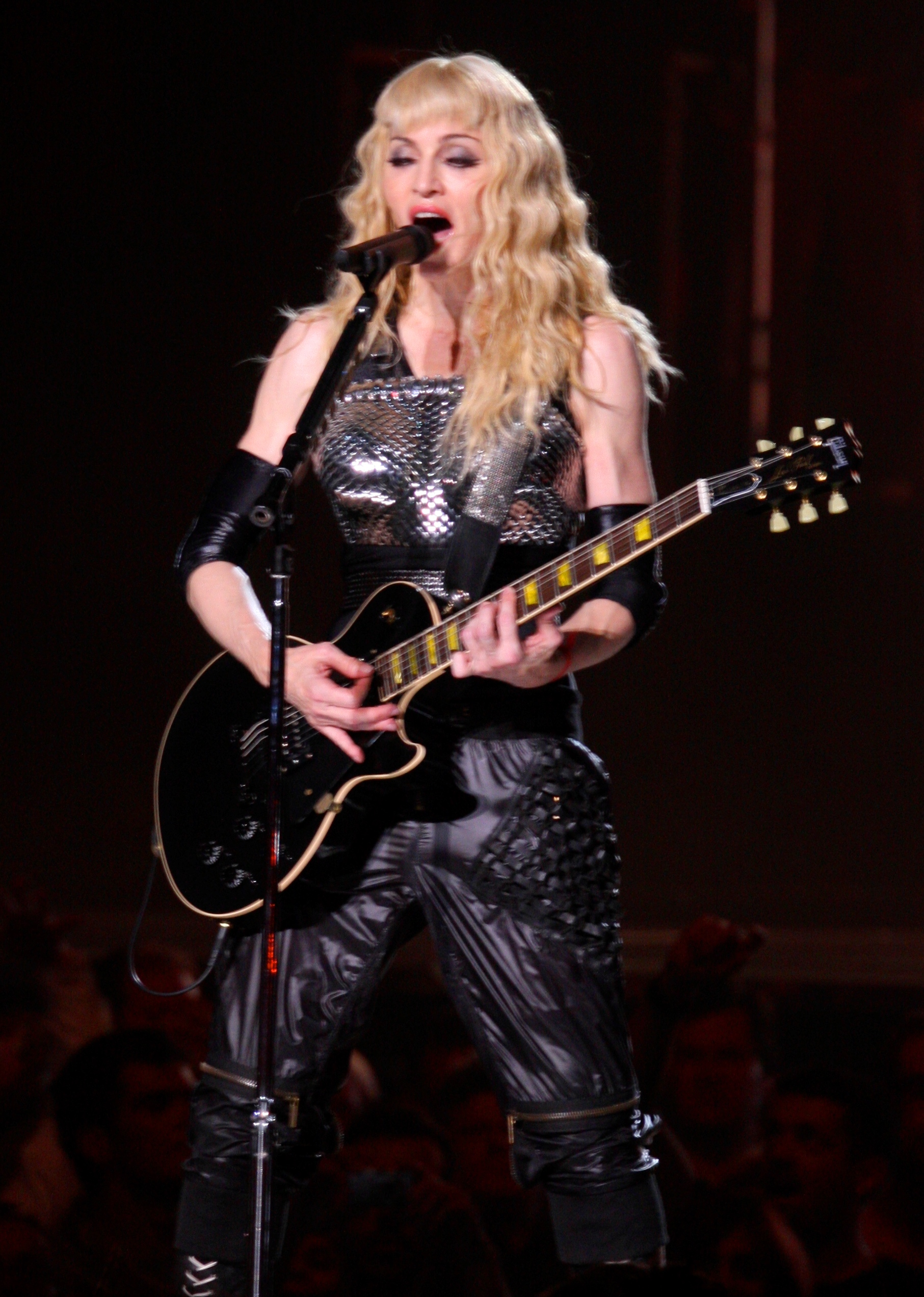 The performance of "Ray Of Light" on Sticky and Sweet Tour